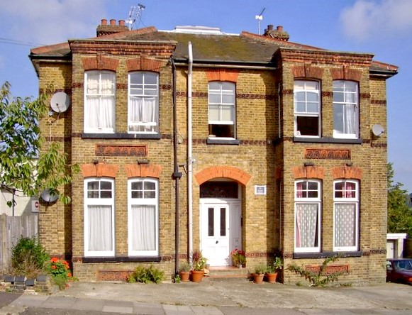 19 Park Road Barnet EN5 5RY In front of this house, in February 1895, Birt Acres made one of the first British films.